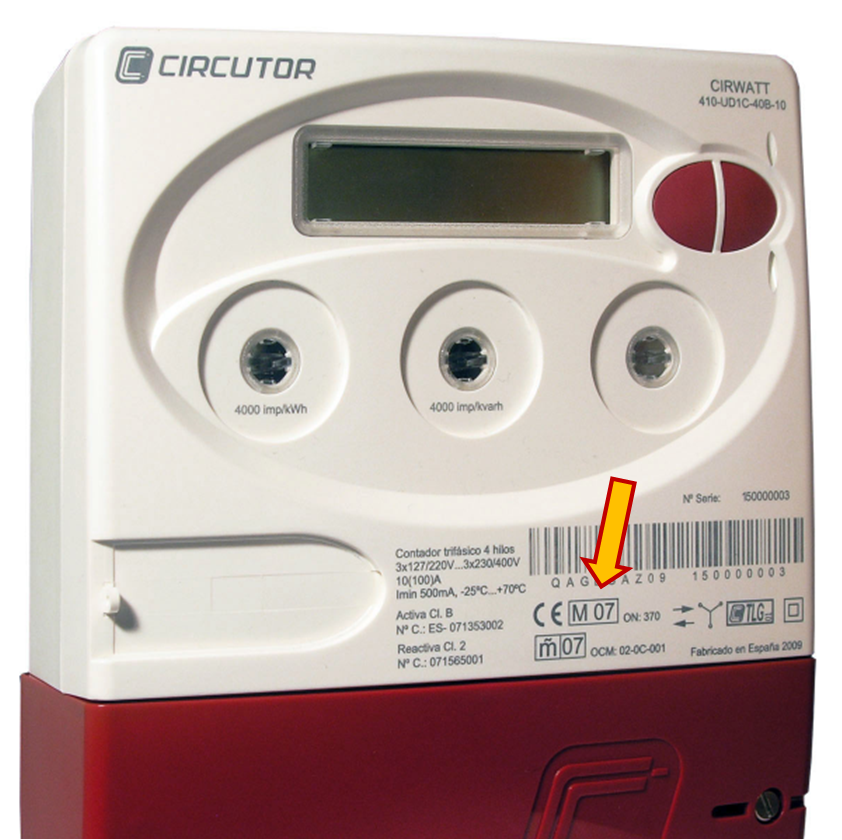 Electricity meter (kWh) with MID-labelling